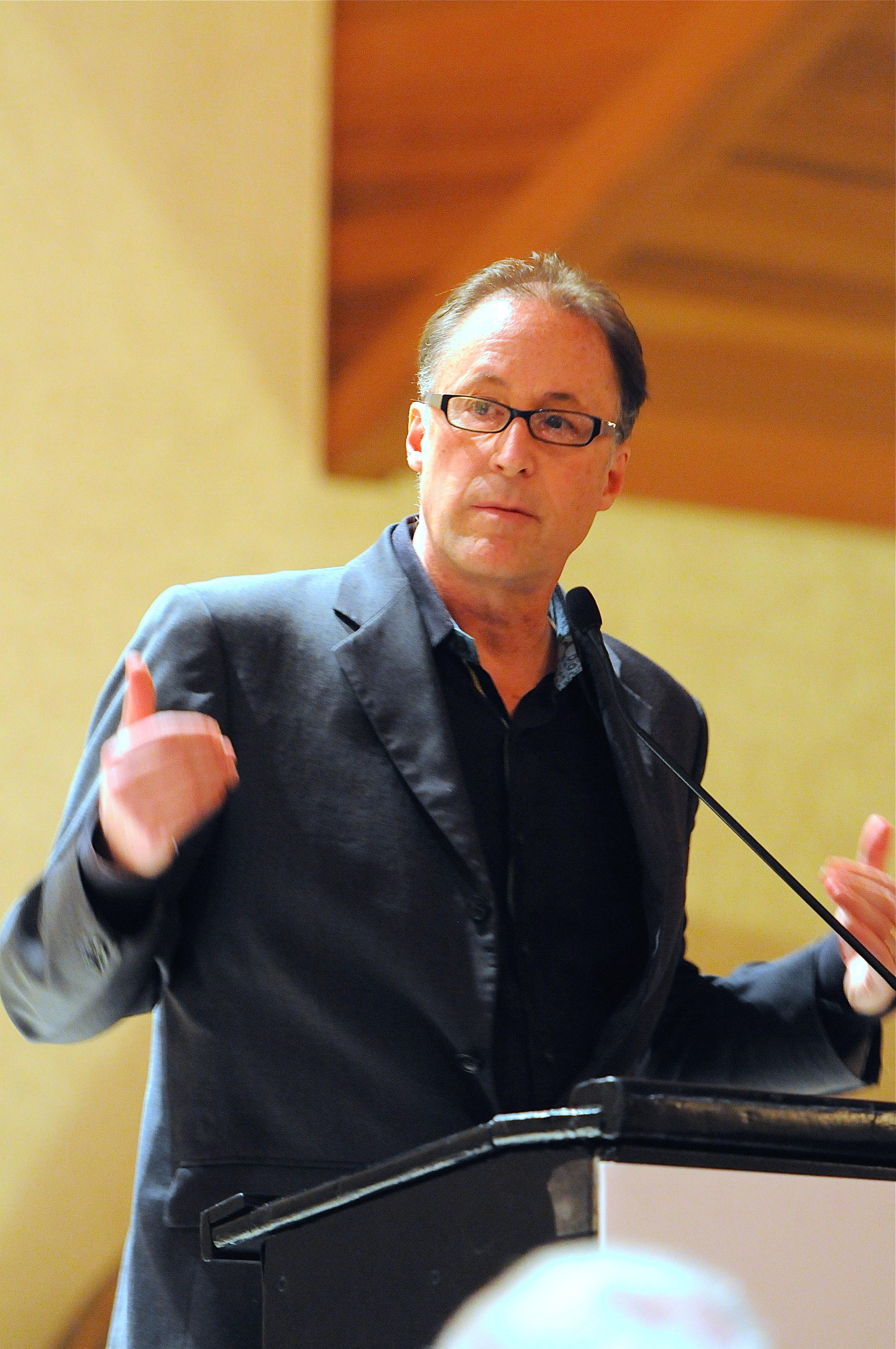 Photograph of Hampton Sides